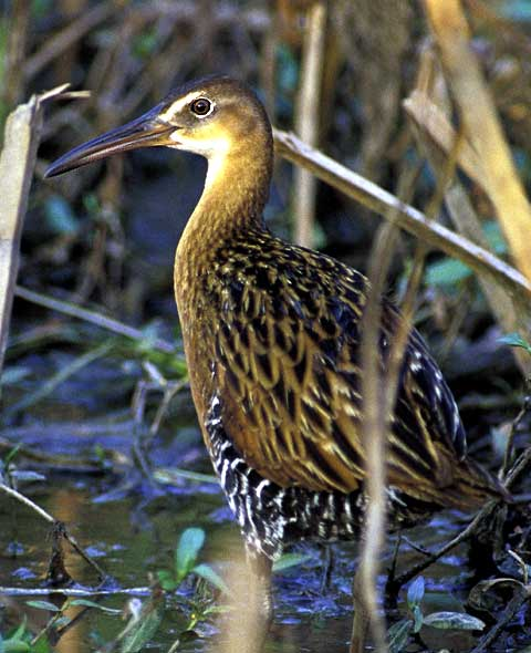 King Rail (Rallus elegans) at Clarence Cannon National Wildlife Refuge, Pike County, Missouri